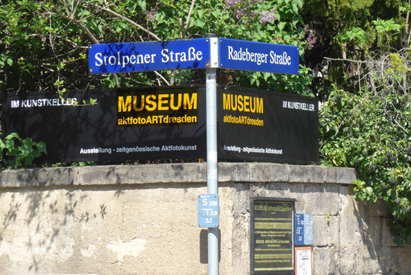 Wegweiser Museum aktfotoARTdresden